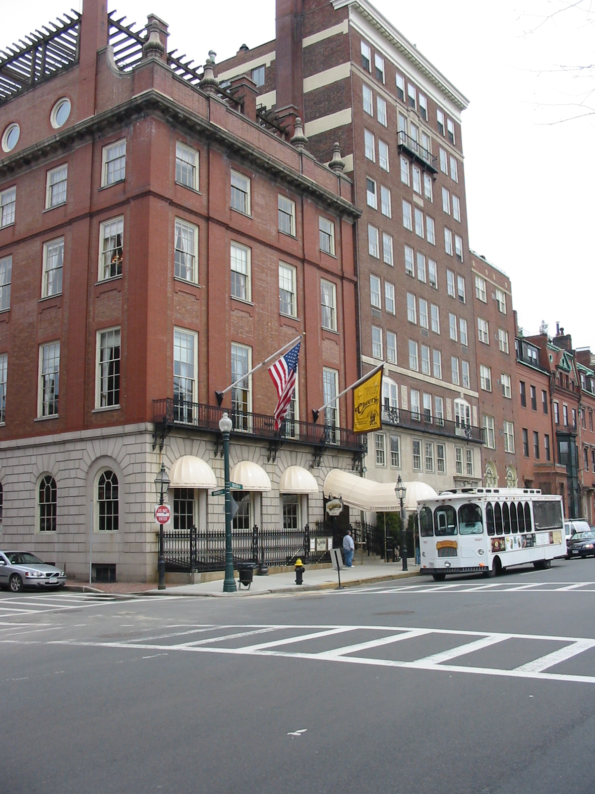 The Cheers site in Boston from the street like in the opening credits